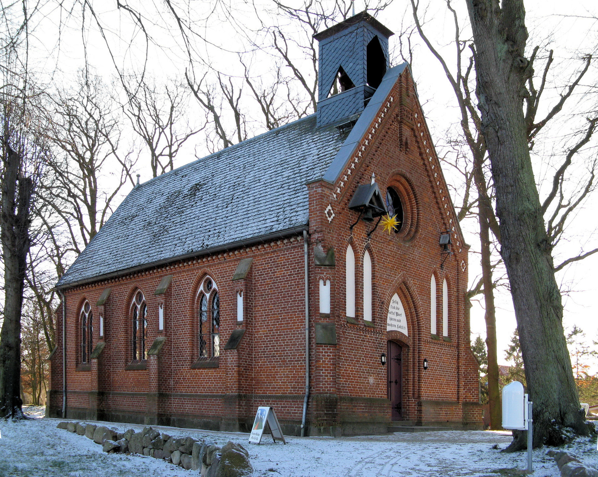 Church in Boltenhagen, Mecklenburg-Vorpommern, Germany